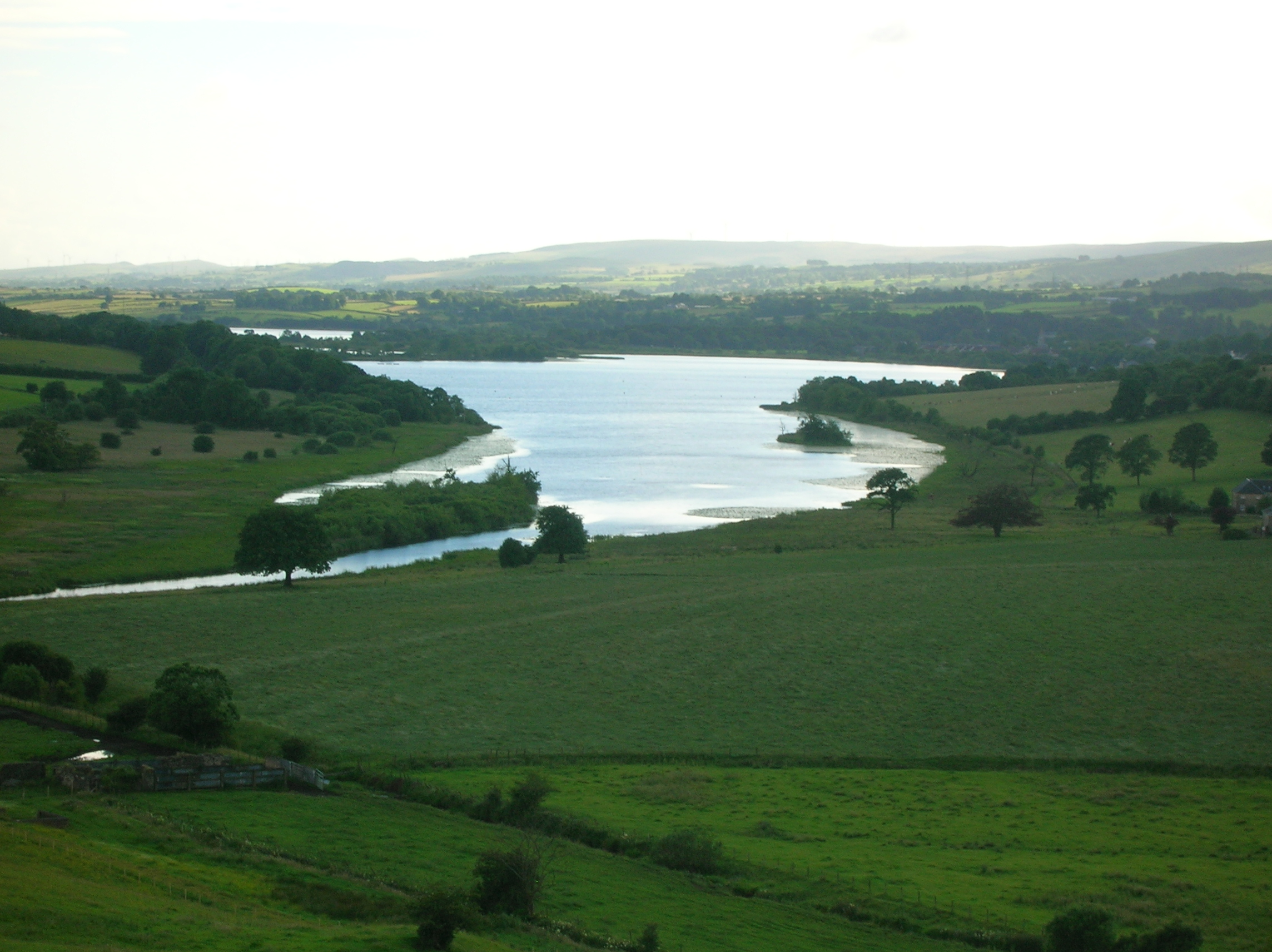 Castle Semple Loch, Renfrewshire, Scotland